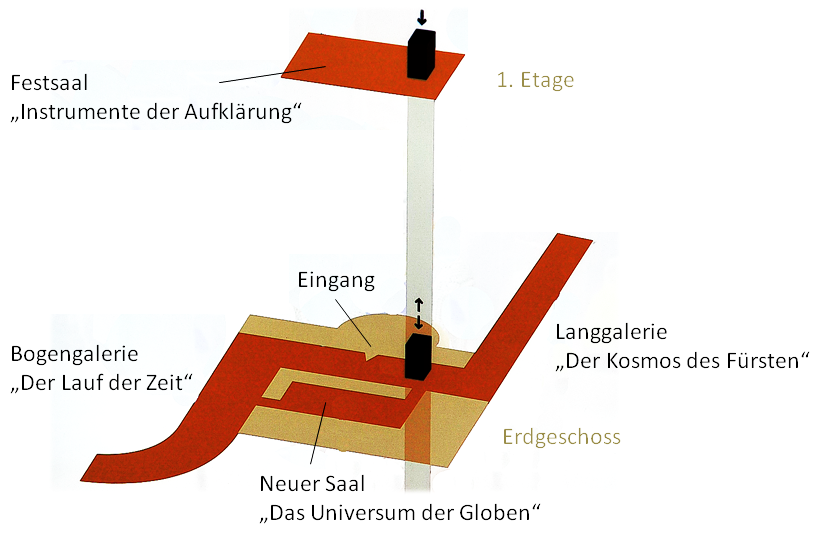 Map of the Mathematisch-Physikalischer Salon (Zwinger, Dresden)